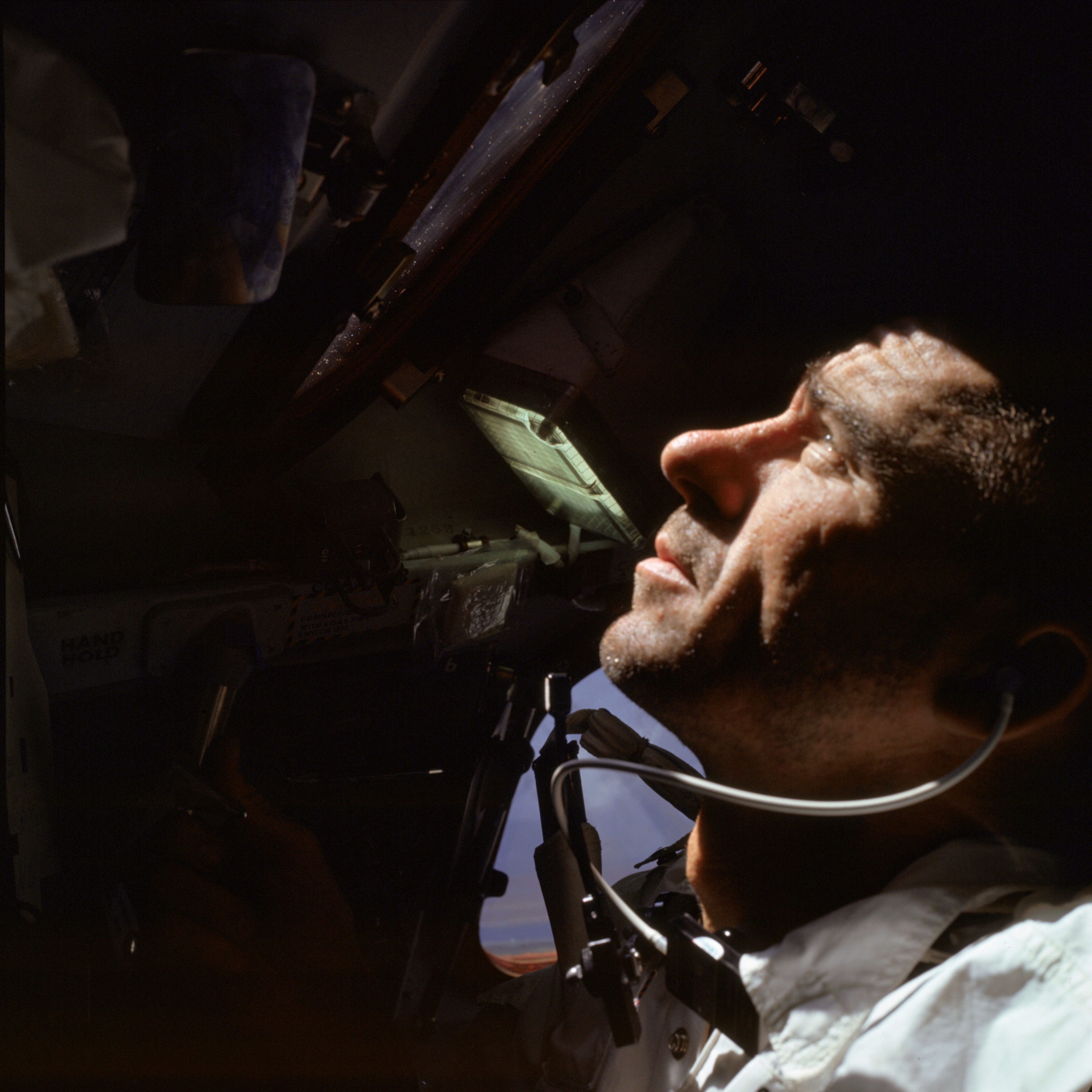 NASA astronaut Walter Cunningham photographed during the Apollo 7 mission, on which he served in the lunar module pilot (LMP) position, in October 1968. NASA photo AS07-04-1584 in public domain.